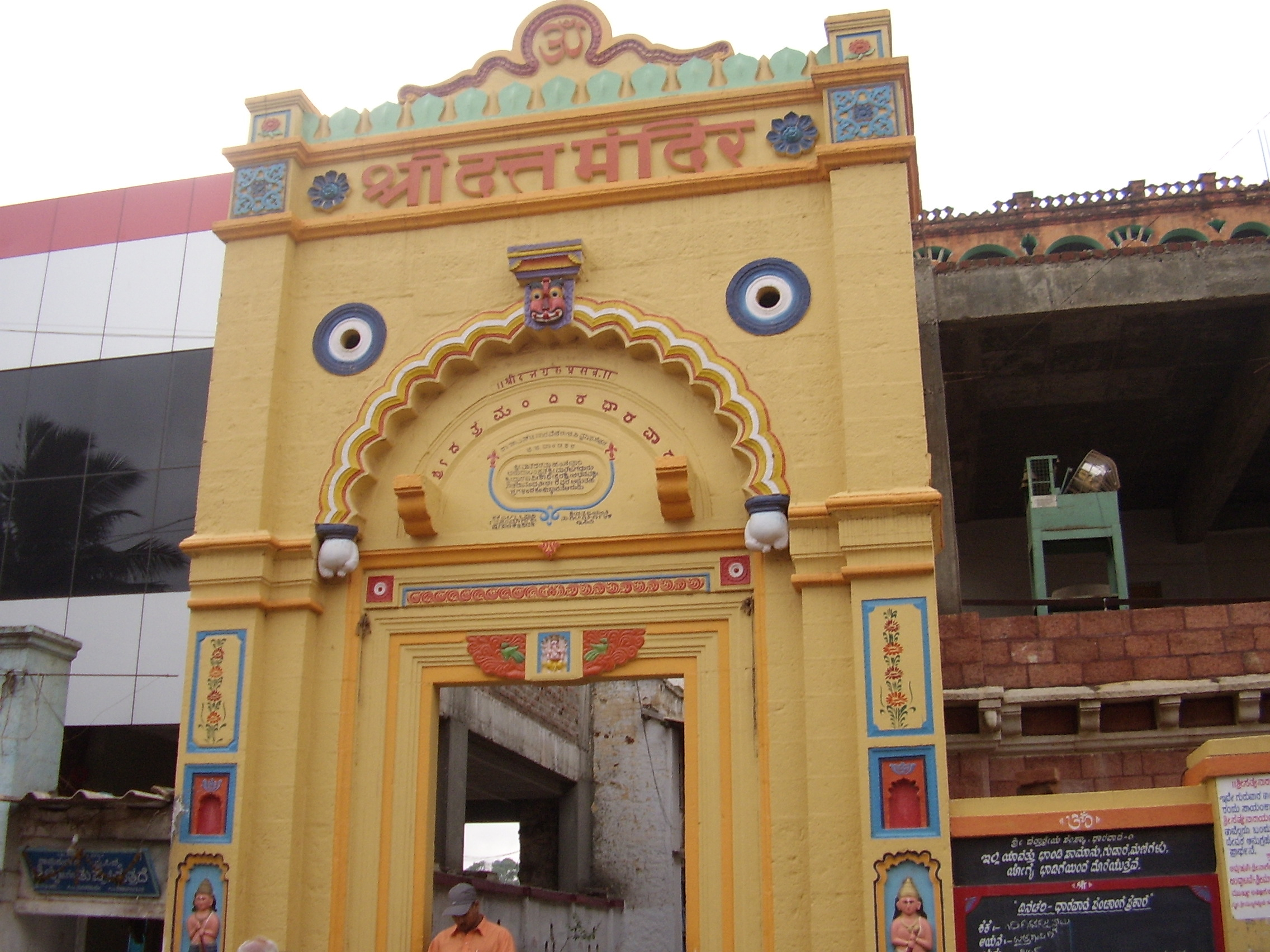 Entrance of Dattatreya Temple, Dharwad. The temple complex also houses a century old Shankaracharya Samskrita Pathashala - traditional school of learning in Sanskrit. The temple continues to be visited by intellectuals during their daily evening walks - hence a place of exchange of ideas. The temple used to be visited by poet Da Ra Bendre.